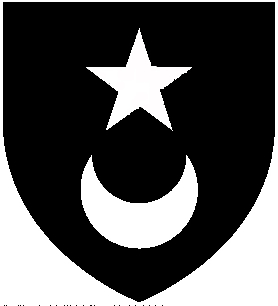 Armorial of Denzell of Mawgan, Cornwall & Filleigh, Devon: Sable, in base a crescent in chief a mullet argent. (Pole (d.1635): "Densill of Filley: Sable, a molet betwixt the horns of a crescent argent" (Pole, Sir William (d.1635), Collections Towards a Description of the County of Devon, Sir John-William de la Pole (ed.), London, 1791, p.480)). These arms survive sculpted in stone on the monument to Sir Richard de Pomeroy (1442-1496), in Berry Pomeroy Church (Easter Sepulchre on north wall of chancel). Sir Richard de Pomeroy (1442-1496), KB, knighted by King Henry VII, Sheriff of Devon in 1473, married Elizabeth Densell (d.1508), daughter and co-heiress of Richard Densell of Weare Giffard and Filleigh, Devon, and widow of Martin Fortescue (d.1472), of Wimpstone, Modbury. These arms of Densell also survive quartered on the monumental brass to Richard Fortescue (c. 1517–1570) in Filleigh Church. Copied & amended from Wiki Commons File:Blason ville fr Lunel (Hérault).svg